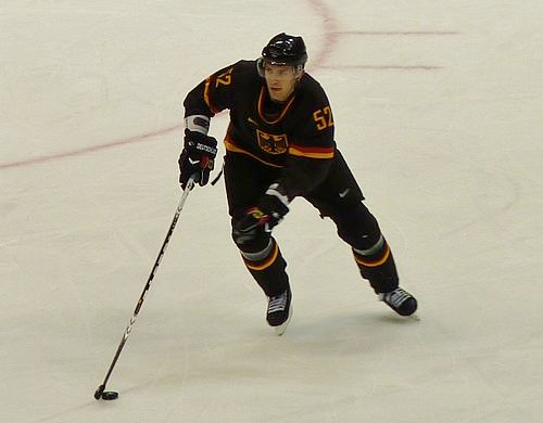 Alexander Sulzer, German ice hockey player